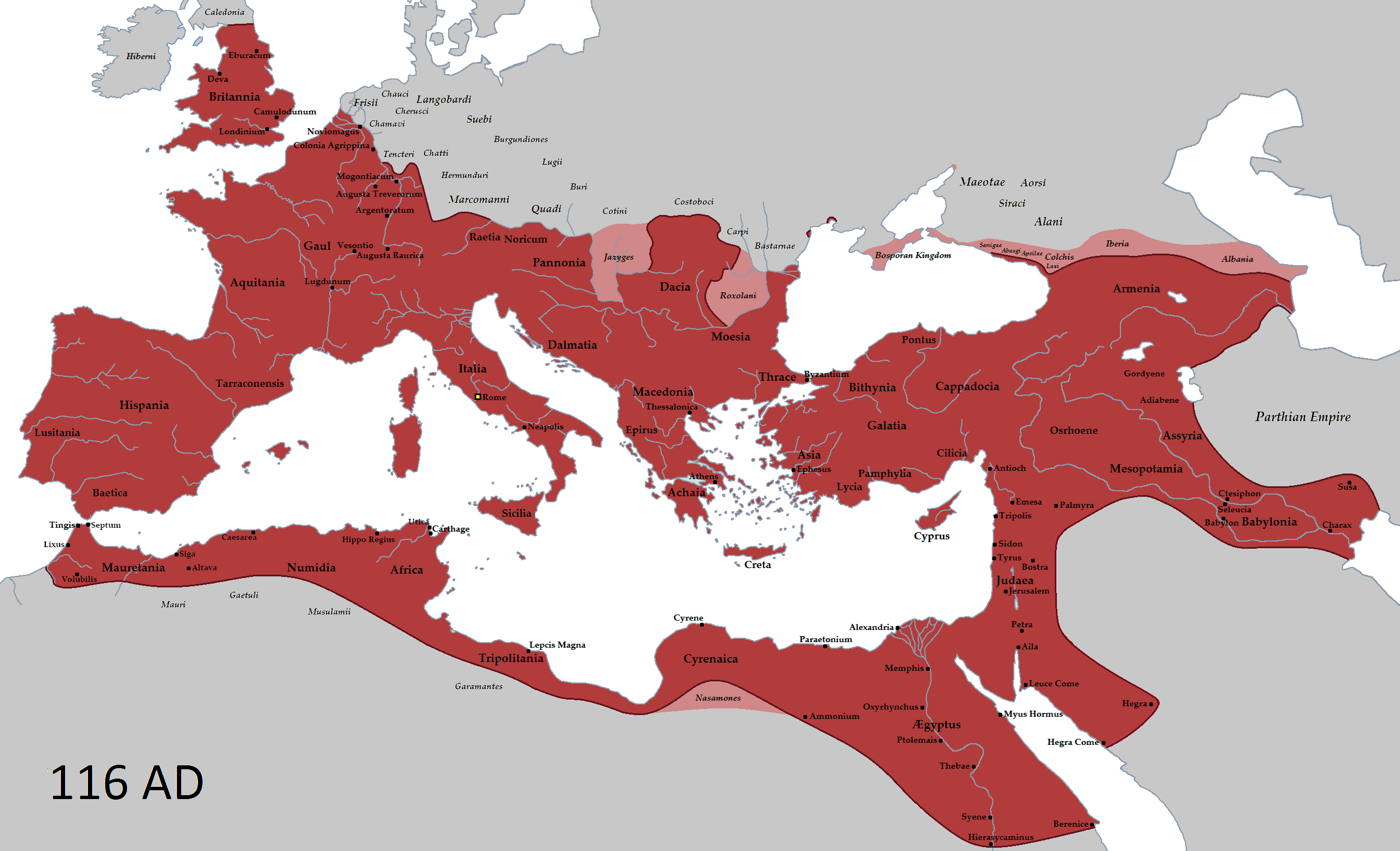 The Roman Empire (red) and its clients (pink) in 116 AD during the reign of emperor Trajan.